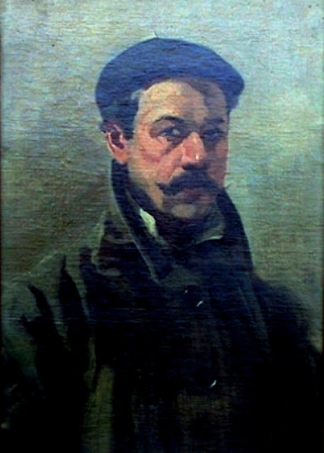 self portrait